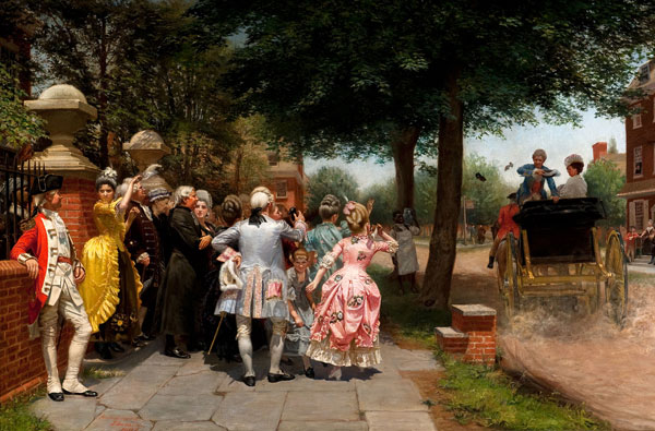 Frederick James (1845-1907), A Colonial Wedding (ca. 1888), oil on canvas; 30 1/8 x 45 1/4” Woodmere Art Museum (Philadelphia)